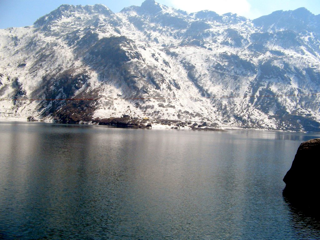 A view of Tsongmo lake, gangtok. I took this photo on 31.03.2006